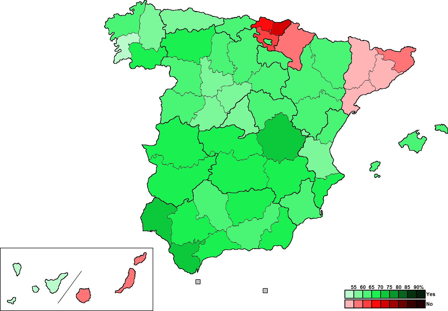 Provincial results for the Spanish referendum, 1986.